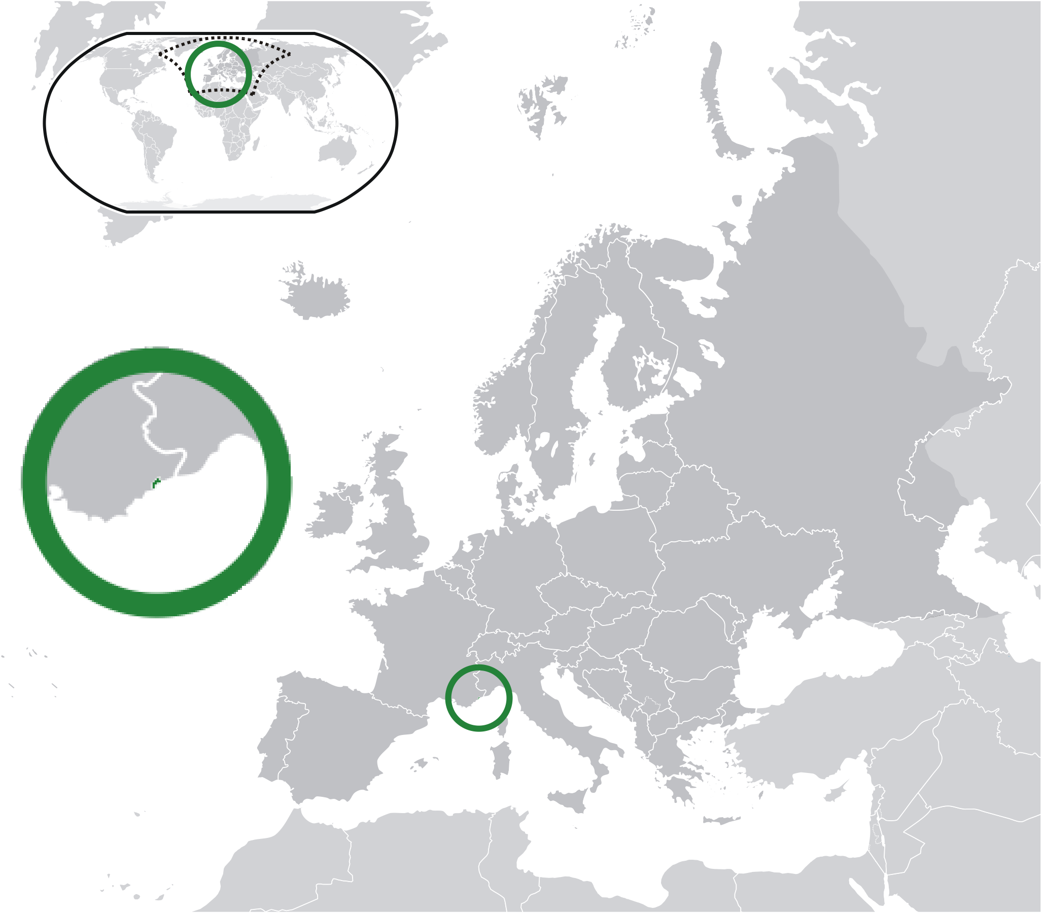 Monaco (dark green) / Europe (dark grey); inspired by and consistent with general country locator maps by User:Vardion, et al